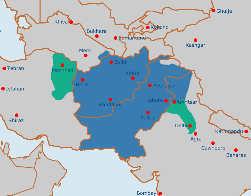 Map of the Durrani Empire at it's greatest extent.